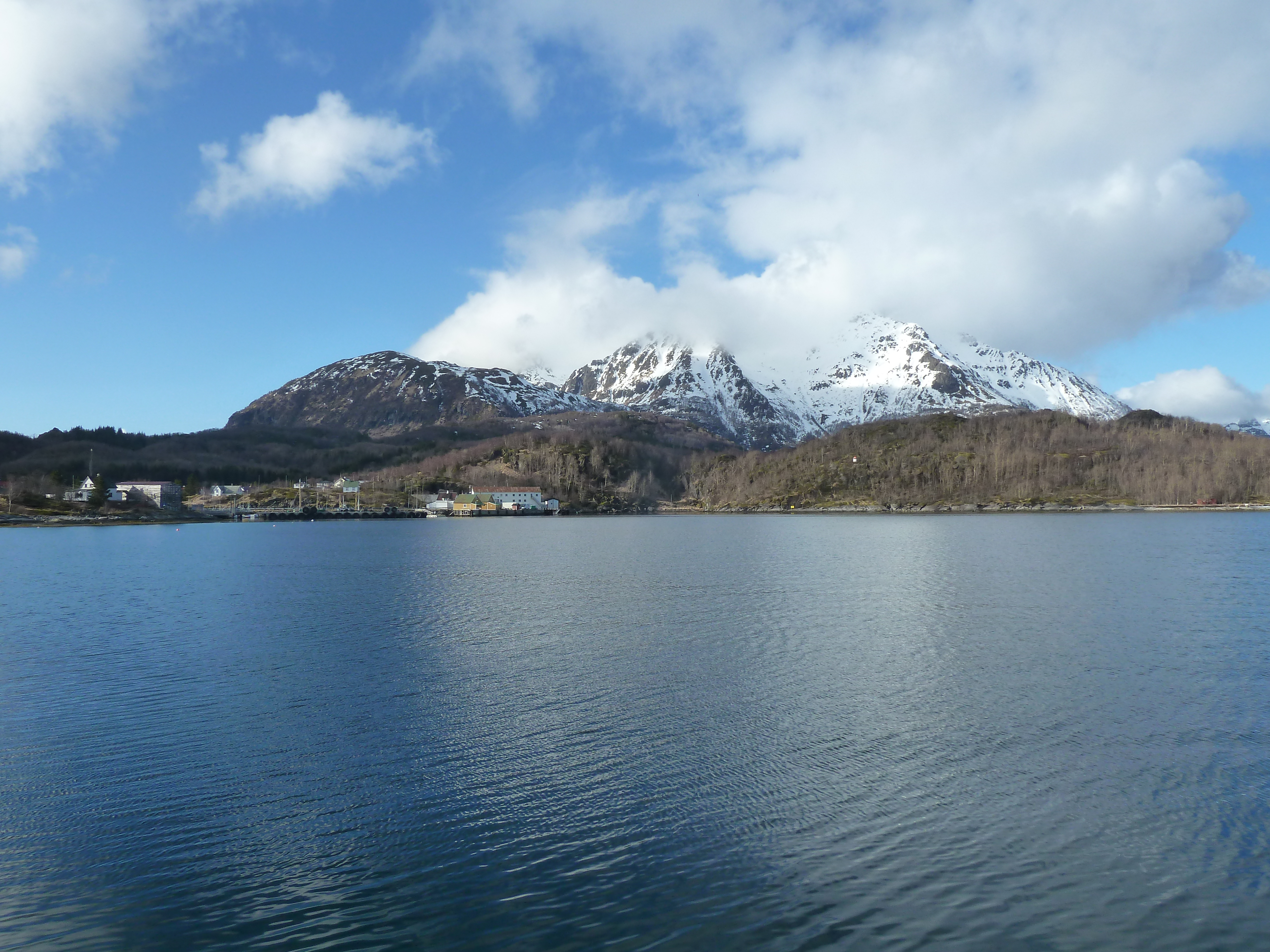 Part of Skutvik in Hamarøy, Norway. Harbor-area, ferry dock and the older part of Skutvik. In the background the moutains Salen, Dalsfjellet (covered by clouds), Sørtinden and Vågsfjellet.